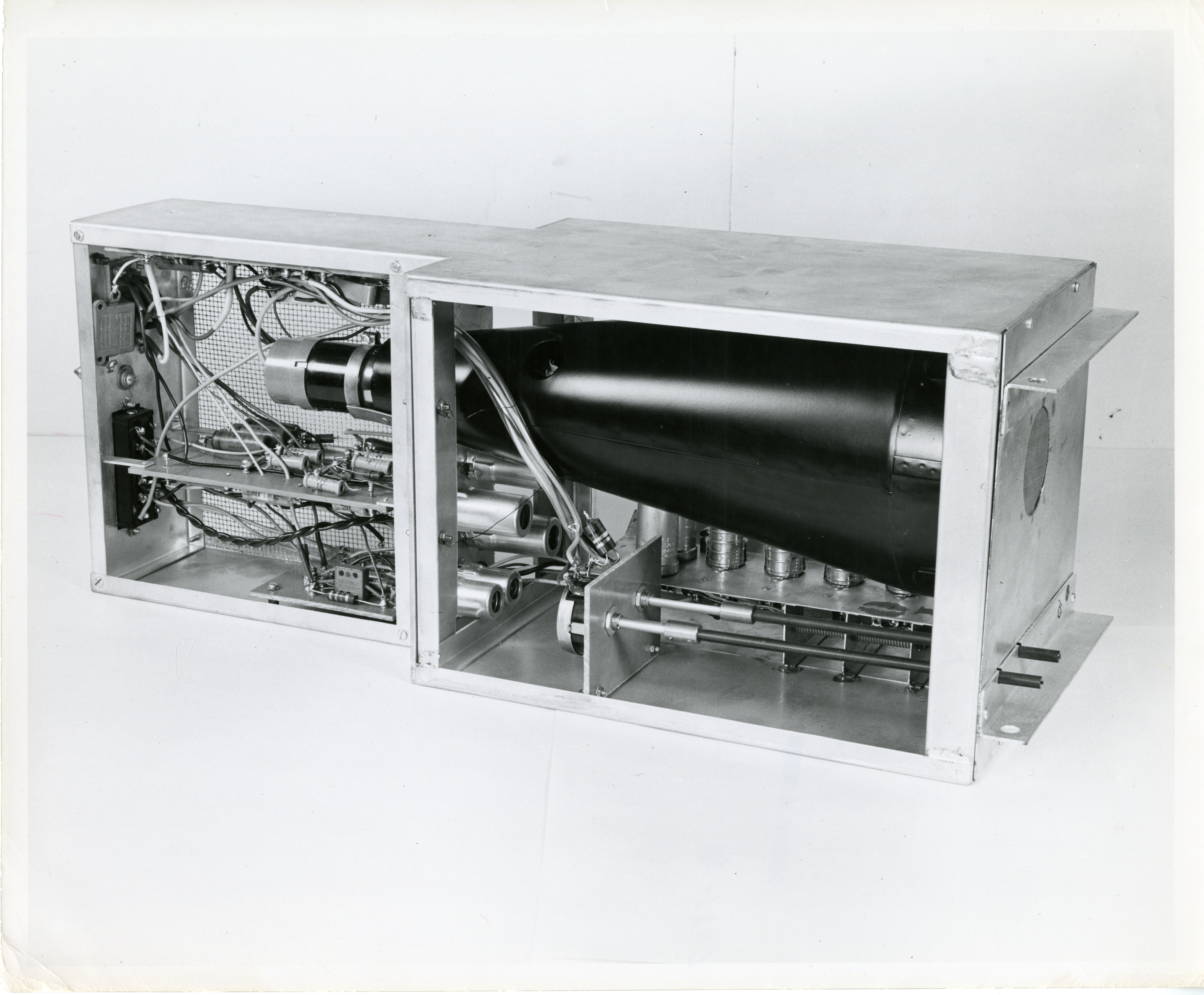 One of the 37 cathode-ray tubes that made up SWAC's Williams-tube memory